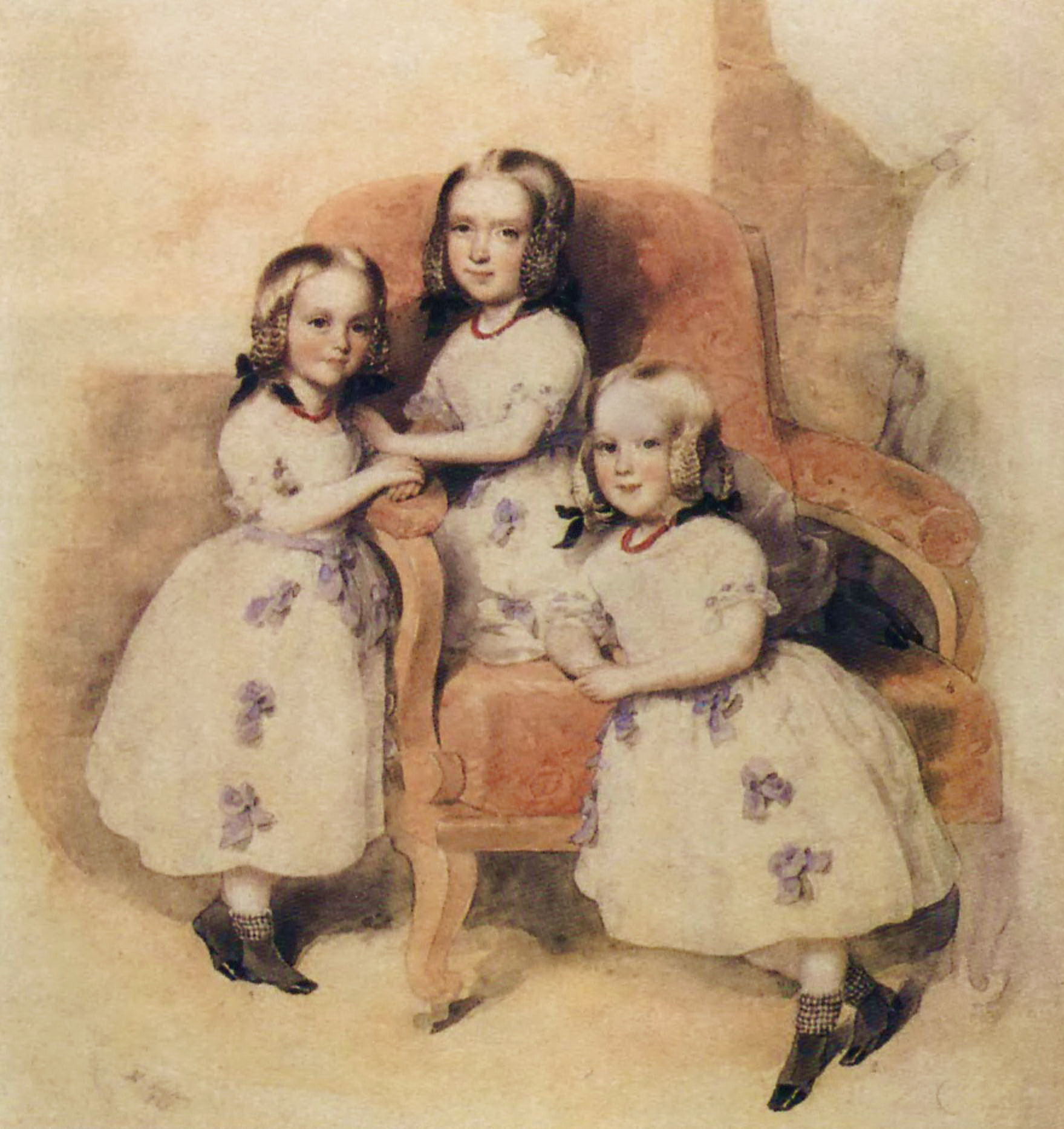 Daughters of Georges-Charles d'Anthès de Heeckeren and Ekaterina d'Anthès de Heeckeren (left to right): Léonie (youngest), Mathilde (elder), Bertha (middle)